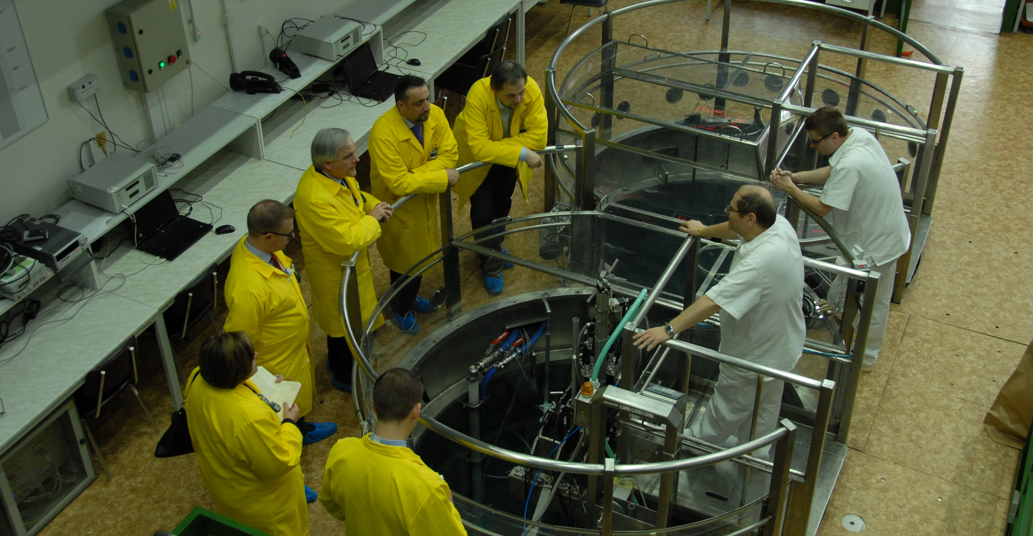 NRC Chairman Stephen Burns visited the Czech Technical University in Prague in April and toured the VR-1 Sparrow research reactor there. The VR-1 reactor is a one-of-a-kind Czechoslovakian-designed research reactor used for training and education.